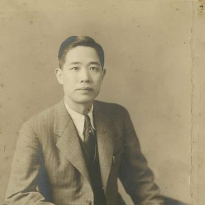 Tan him(1893-1947)